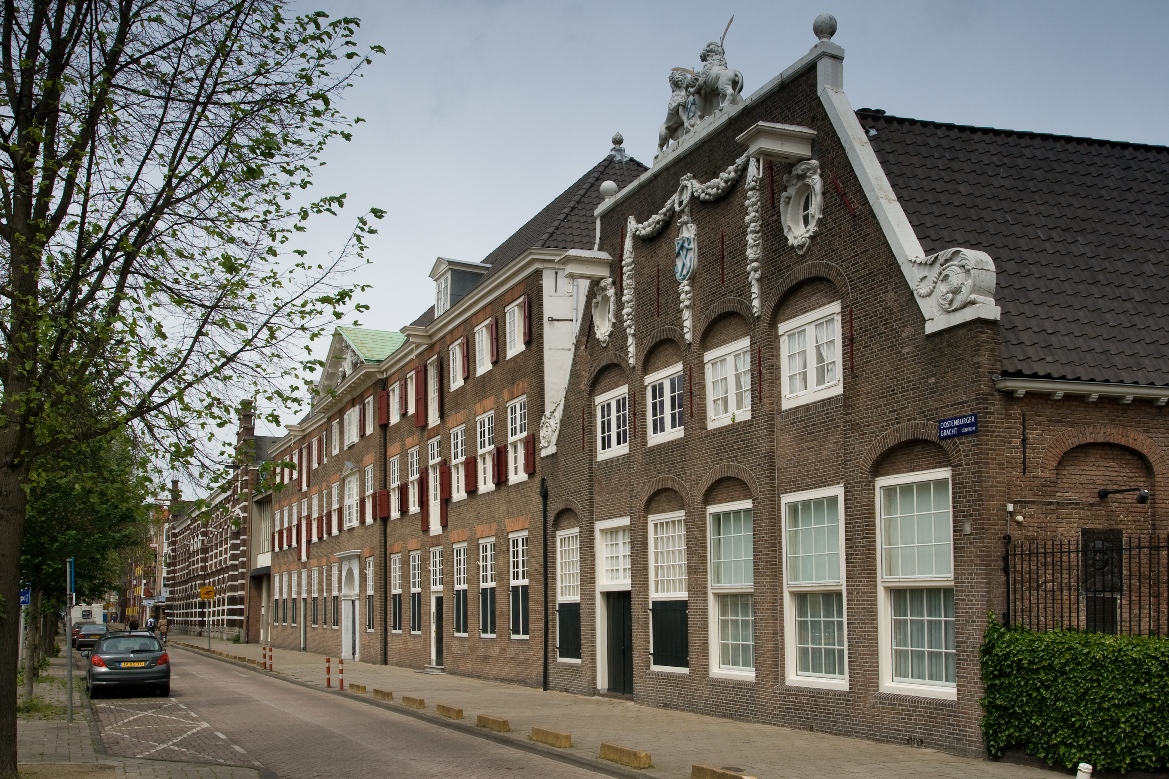 Lijnbaan aan de Oostenburgergracht, Oostenburg, Amsterdam